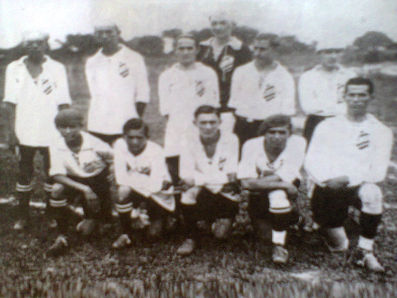 Orion Sporting Club